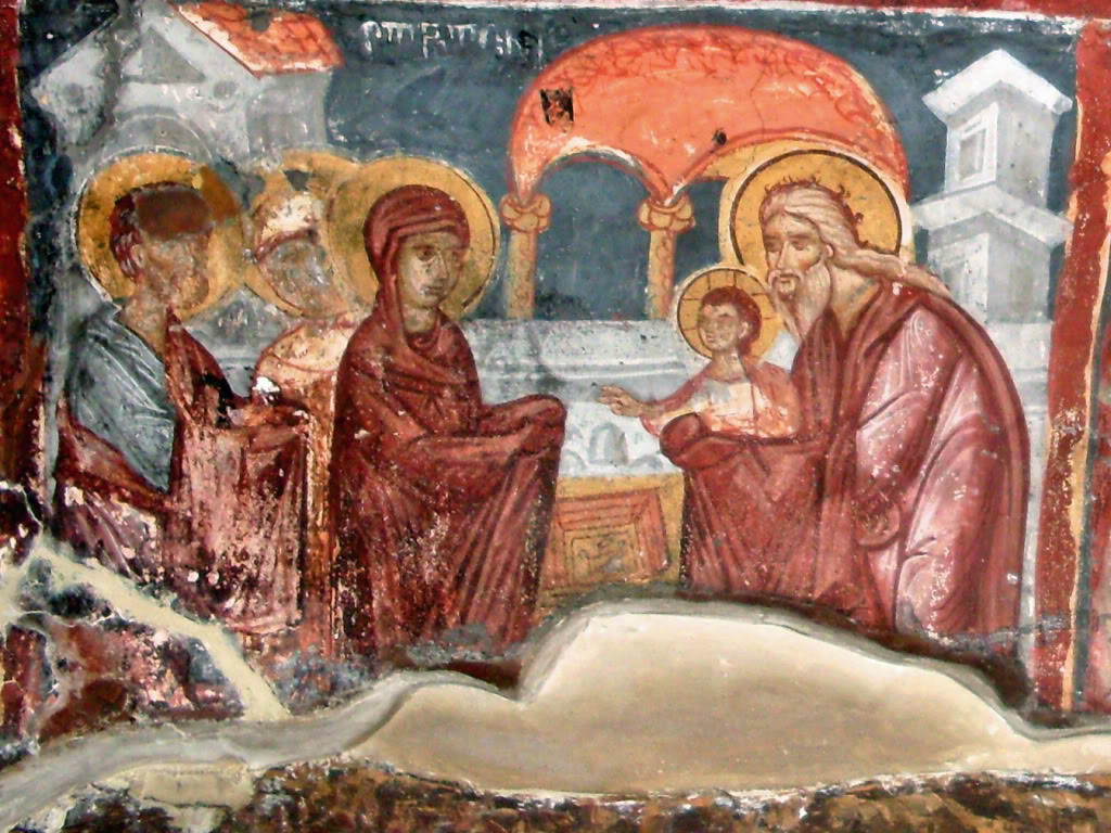 Fresco in Nativity of the Theotokos Cave Church in Kališta, Macedonia